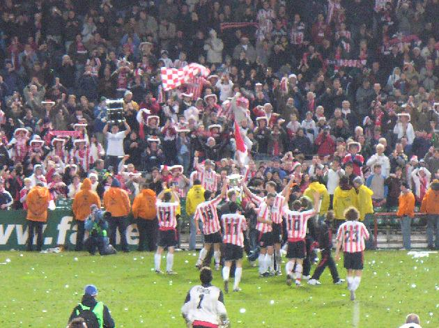 Derry City FC celebrate winning the 2006 FAI Cup final. Size decreased to enable uploading.